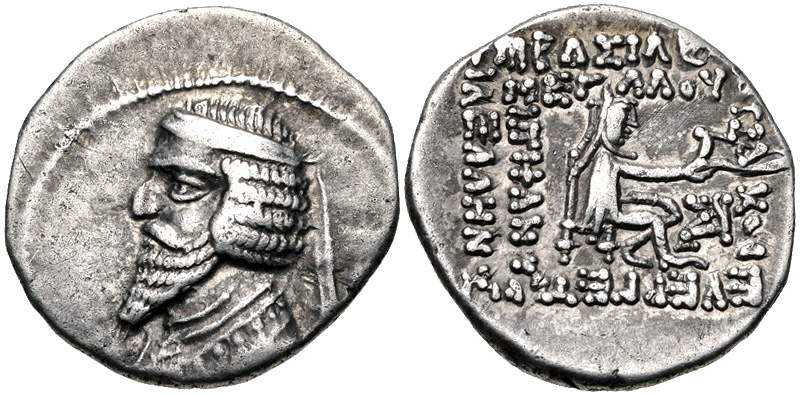 Drachm of Phraates III, Mithradatkert mint.